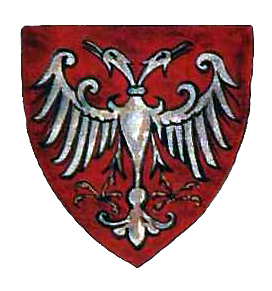 Modern reconstruction of CoA of House of Nemanja, made by Aleksandar Palavestra, based on the Fojnica Armorial (17th century).